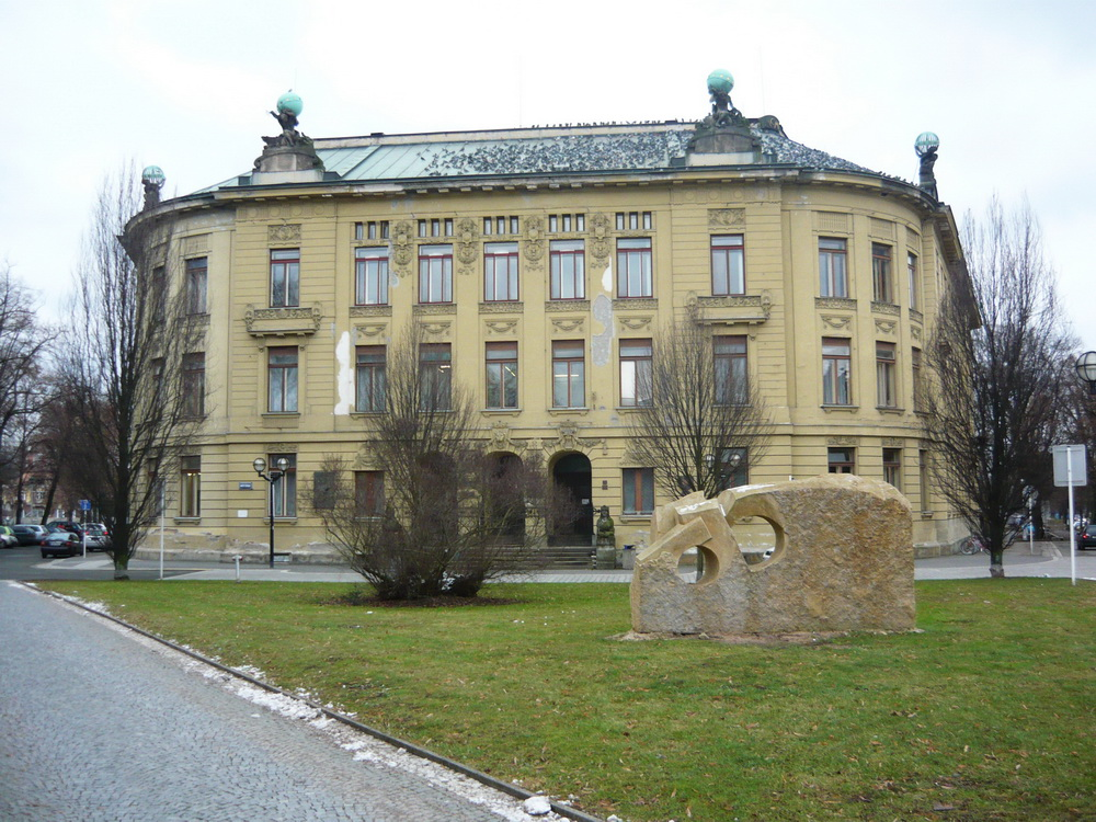 Hubert Gessner: Former Chamber of Commerce, Hradec Králové, náměstí Svobody 2, today University of Hradec Králové, Faculty of Education